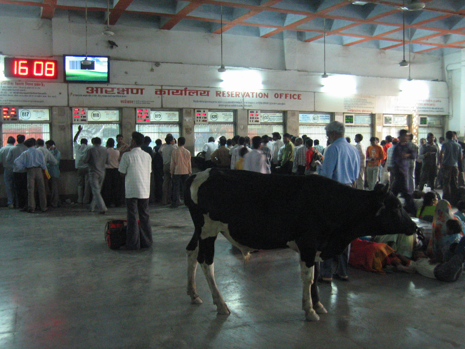 It's like my b-day! And Railway Reservation office. And.. COW?!